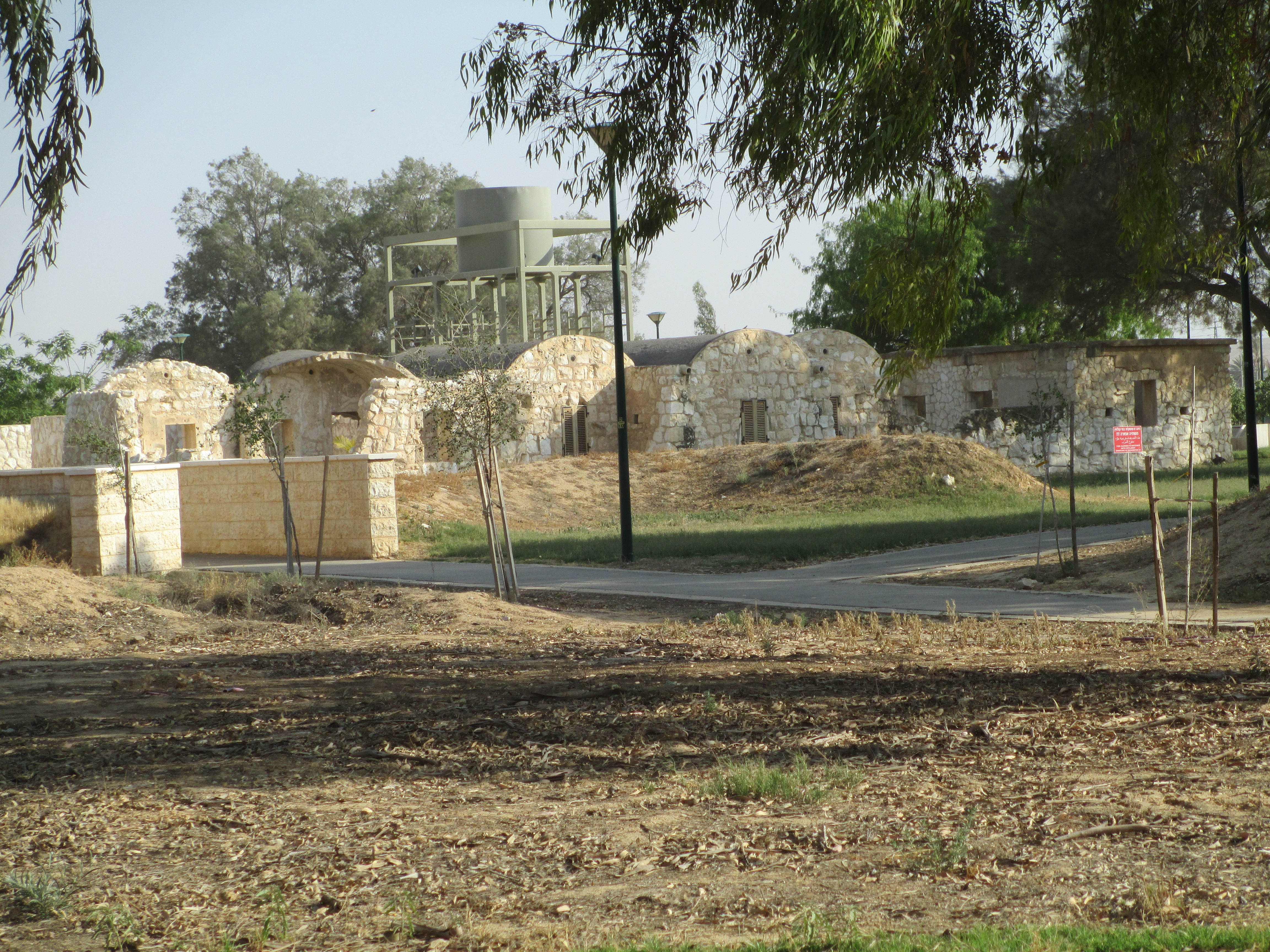 beit eshel near beersheba